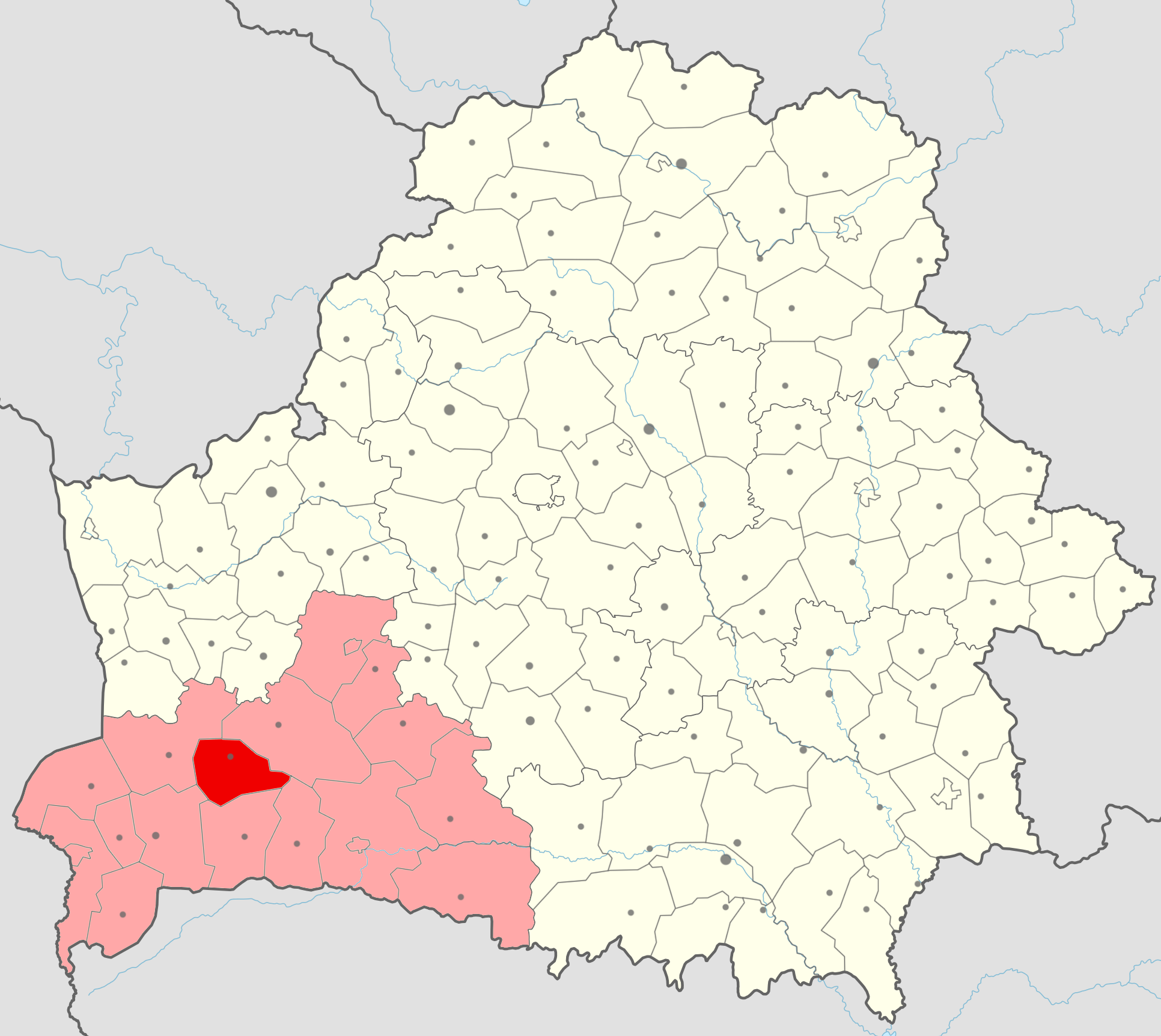 Location of Biarozaŭski rajon (red) in Bresckaja voblasć (light red) in Belarus.